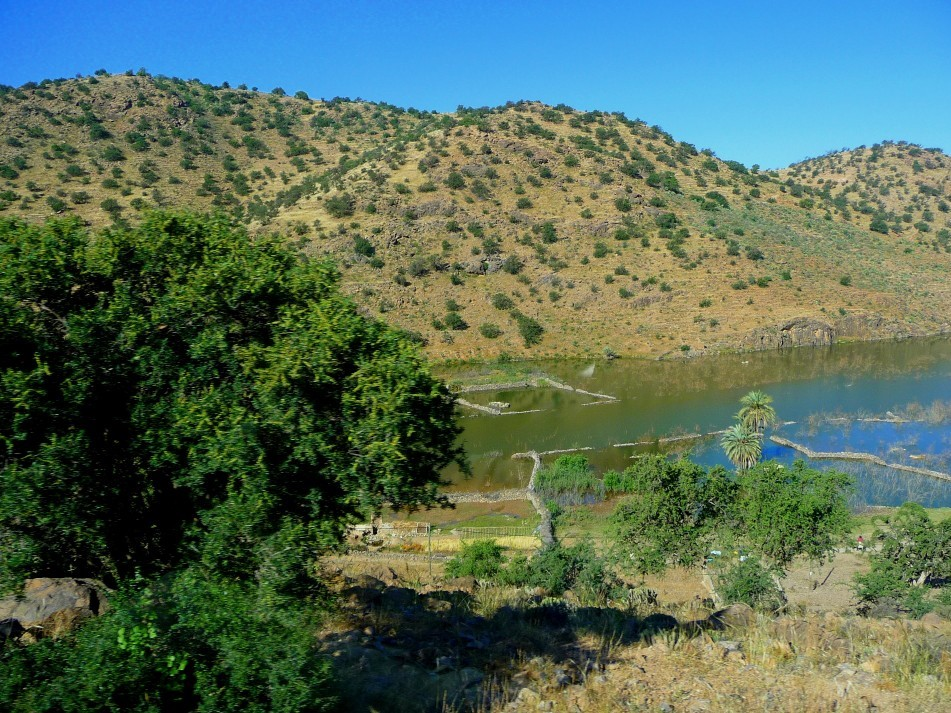 Un lac l'Anti-Atlas.